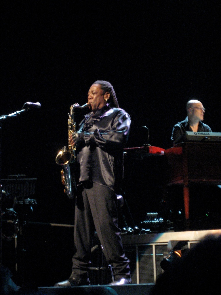 Clarence Clemons performs with the E Street Band in the band's Baltimore stop of the 2009 Wrecking Ball tour.